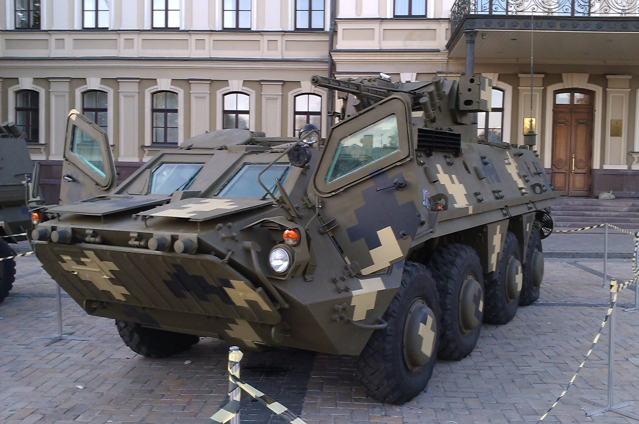 BTR-4E at the exhibition «The Power of unconquered» on the Day of the defender of Ukraine